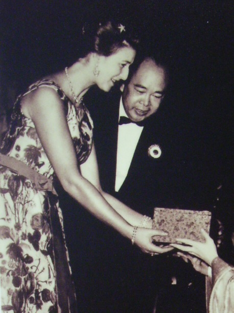 During her visit to Hong Kong in 1961, Princess Alexandra greets Cantonese opera performers Yam Kim-fai and Bak Sheut-sin after their performance of The Romance of the White Snake